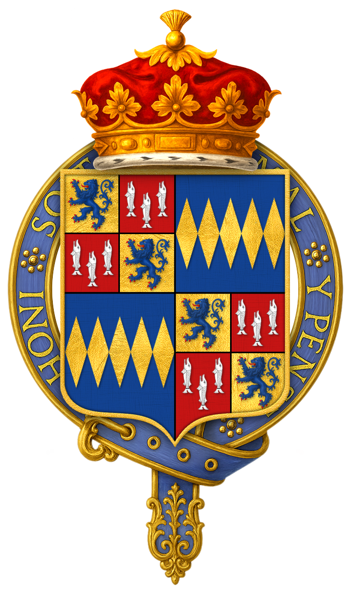 Garter-encircled shield of arms of Alan Percy, 8th Duke of Northumberland, KG, as displayed on his Order of the Garter stall plate in St. George's Chapel.